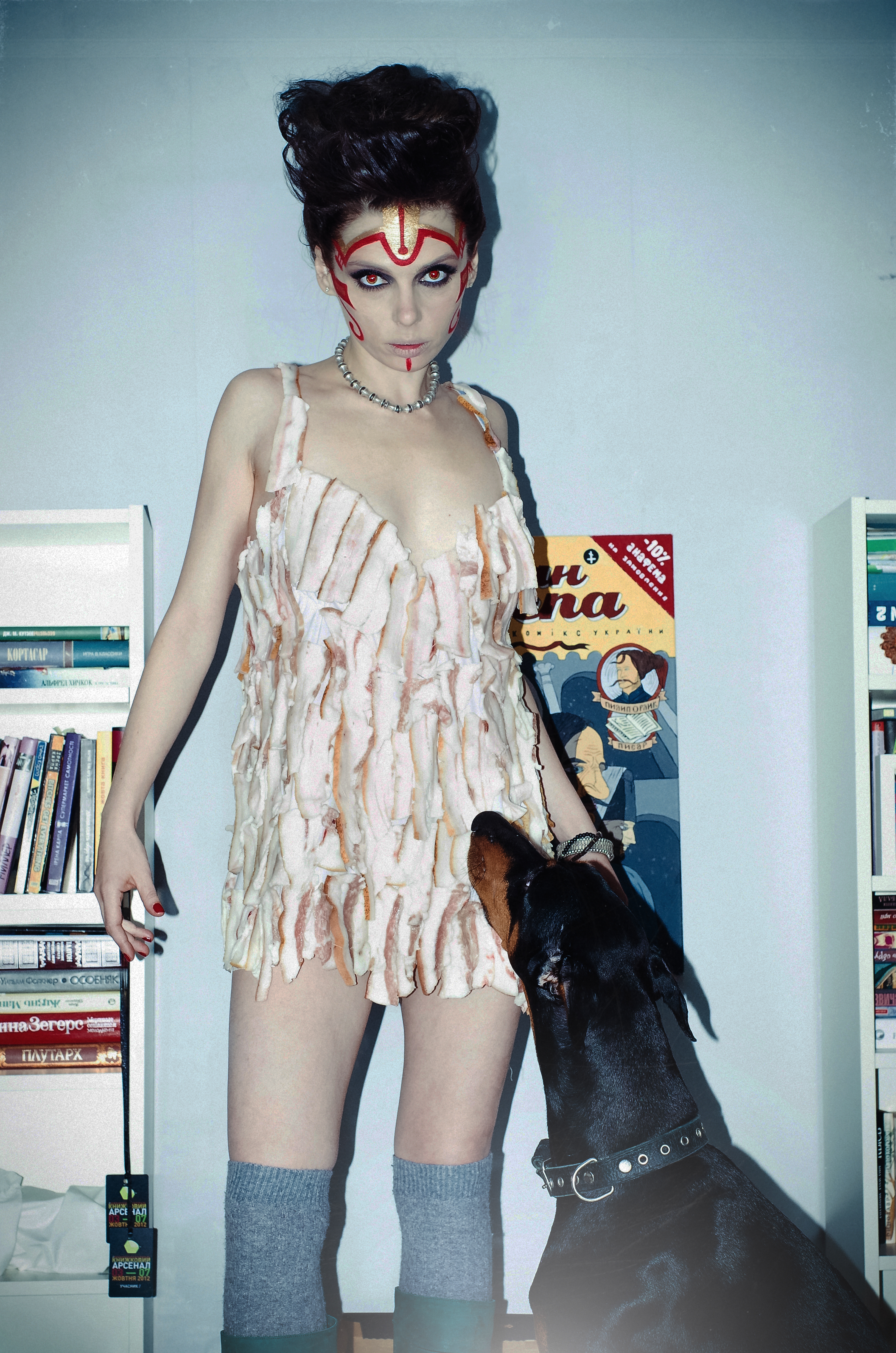 Irena Karpa is preparing to perform on stage with Marilyn Manson.